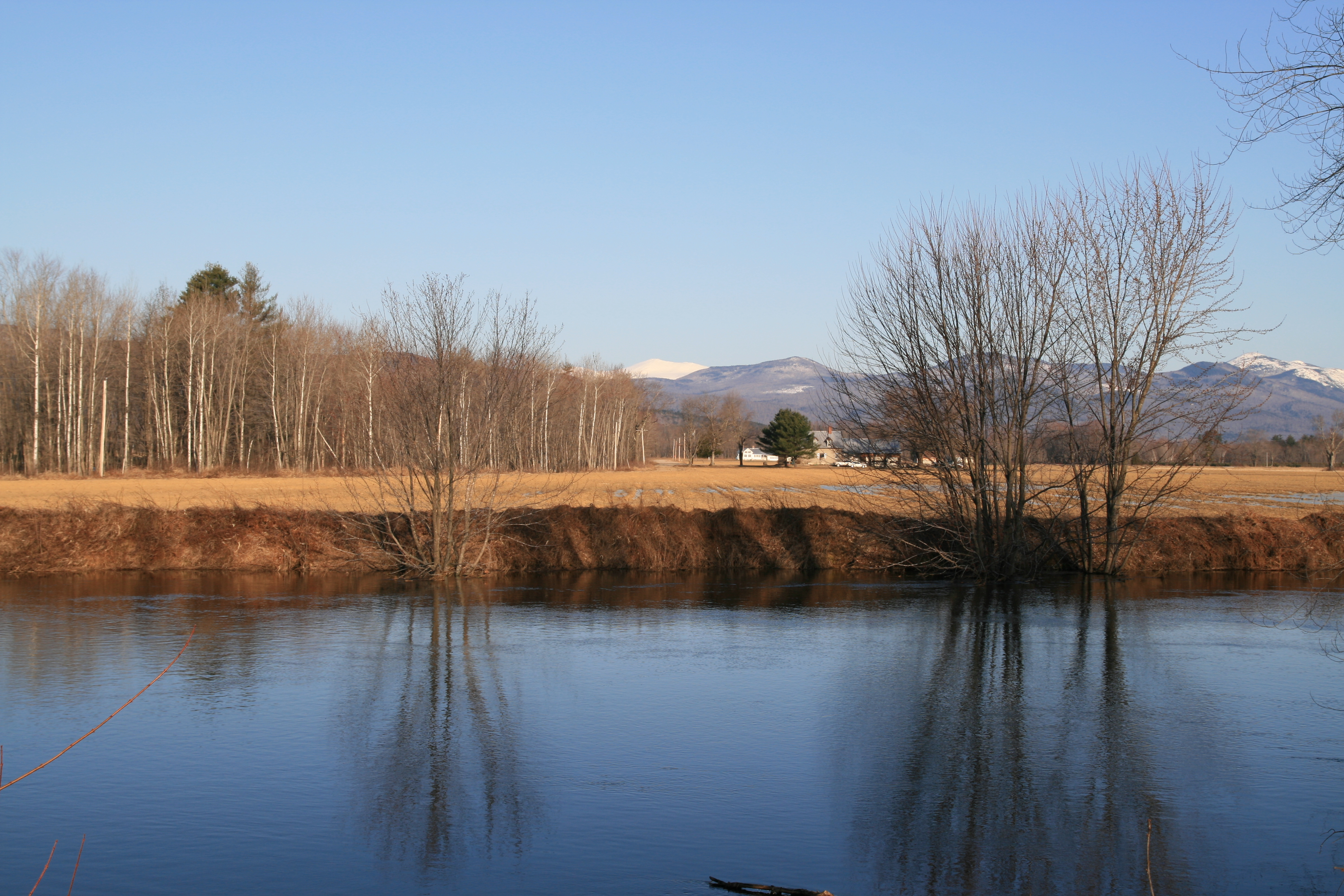 View of the White Mountains in New Hampshire, seen from The Olde Saco Inn in Fryeburg, Maine.